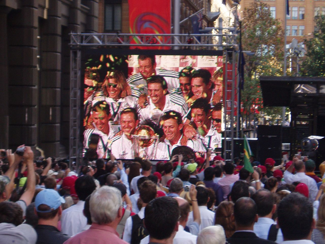 Australia complete World Cup treble. A large crowd of over 10,000 fans give a warm welcome to the Australian cricket team on returning home with the trophy - Martin Place, Sydney.